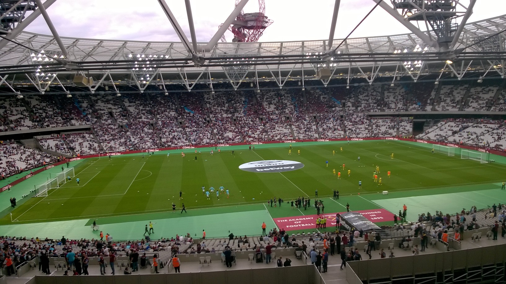 The East Stand of the London Stadium prior to West Ham United's first match v NK Domzale